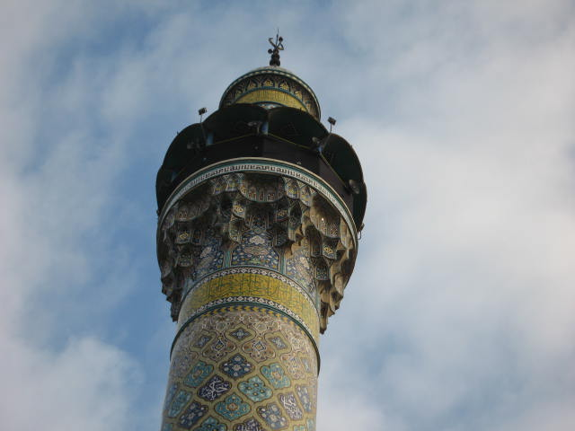 Minaret of Zeinab's holy shrine in Syria